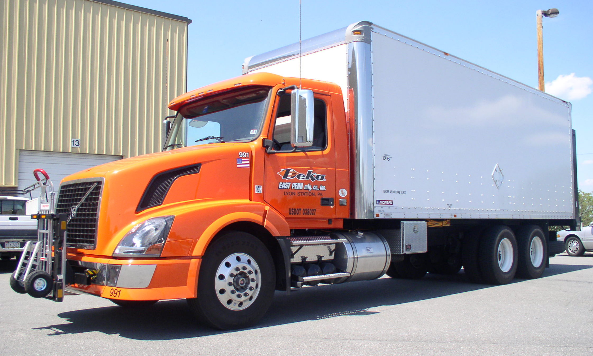 East Penn Manufacturing Deka Batteries Volvo D13 chassis with Morgan Truck Body and HTS-10T Ultra-Rack Hand Truck Sentry Systems.